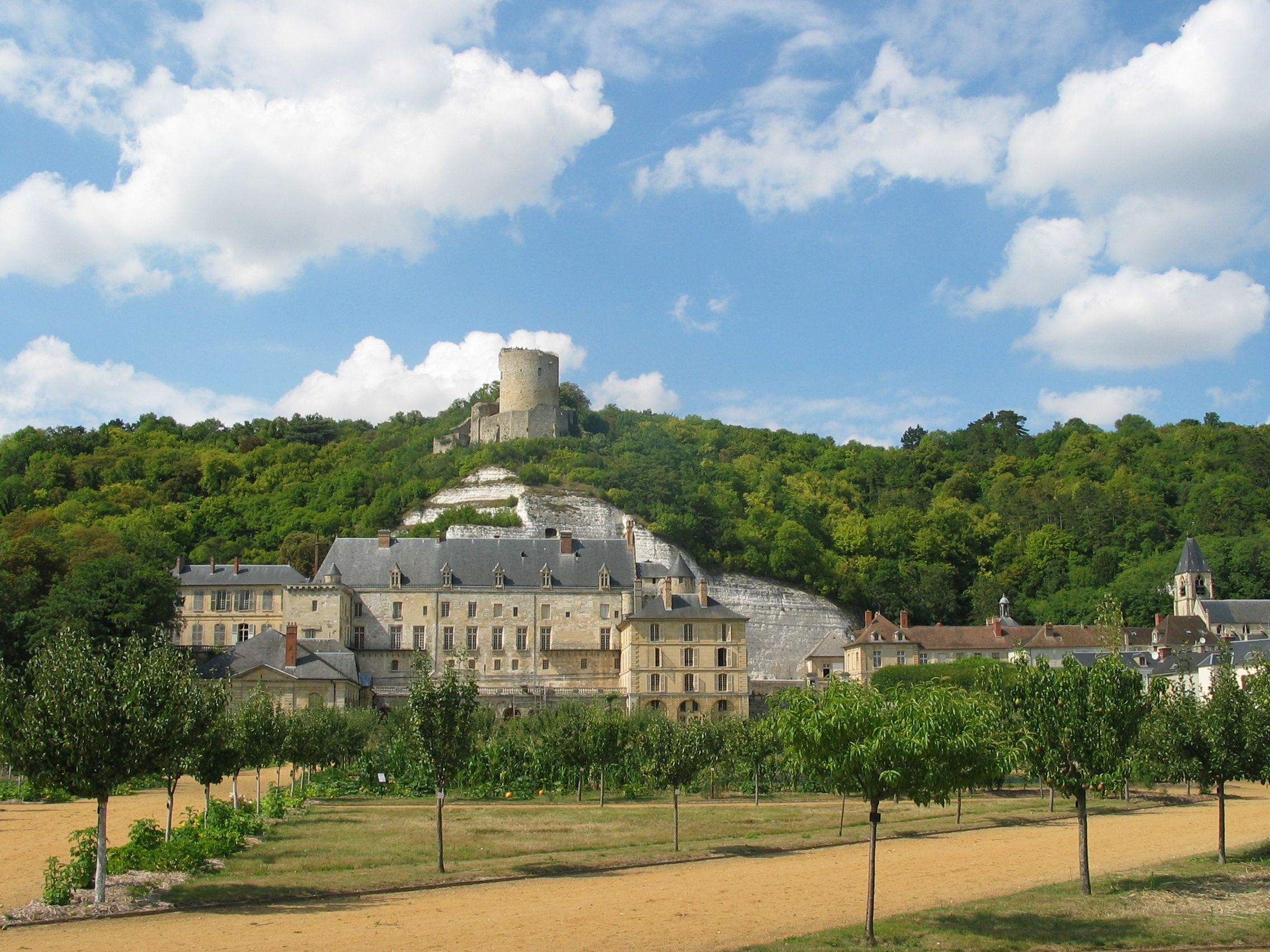 La Roche-Guyon castle (Eure, France).